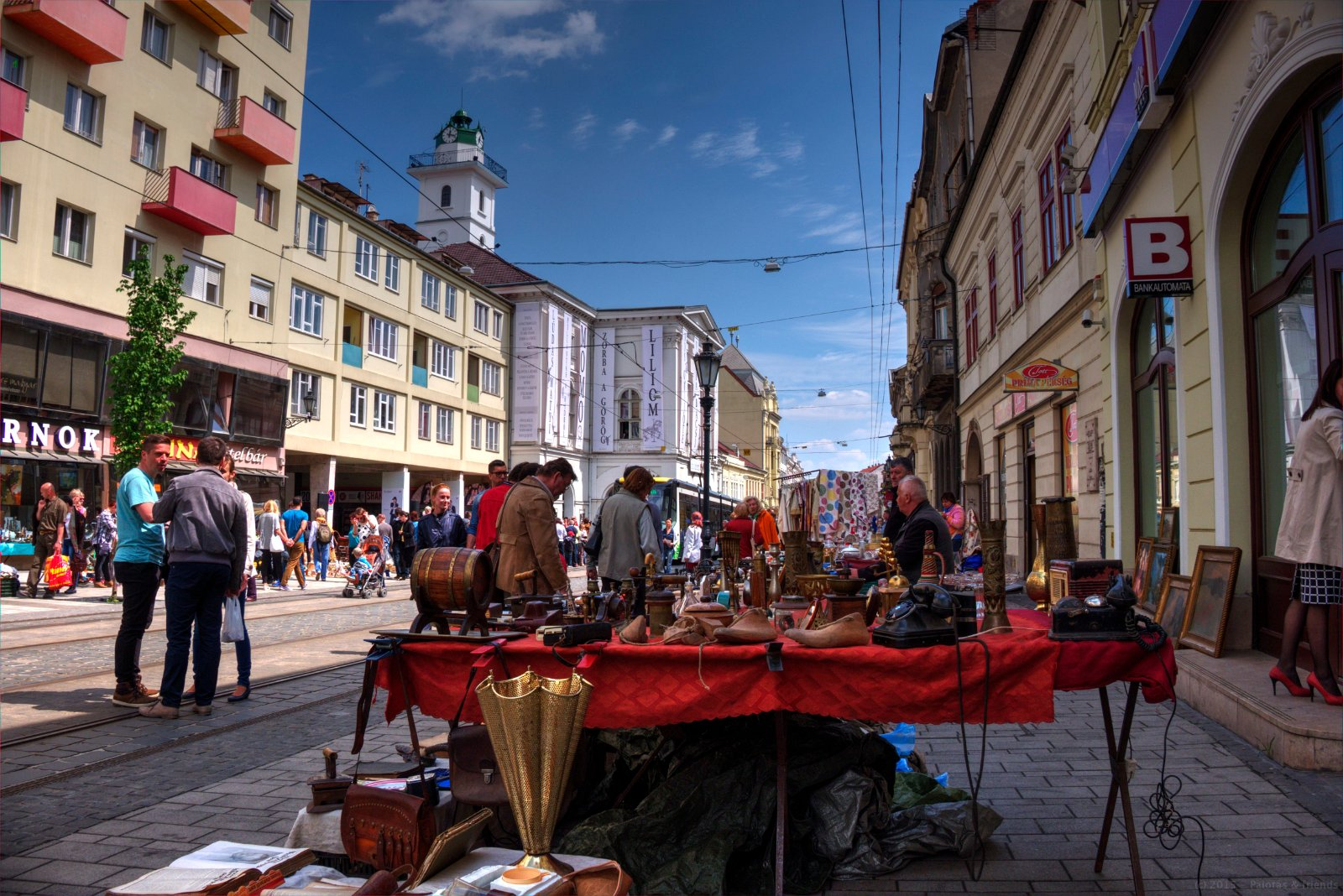 Antiques Fair in Széchenyi Street, Miskolc, Hungary